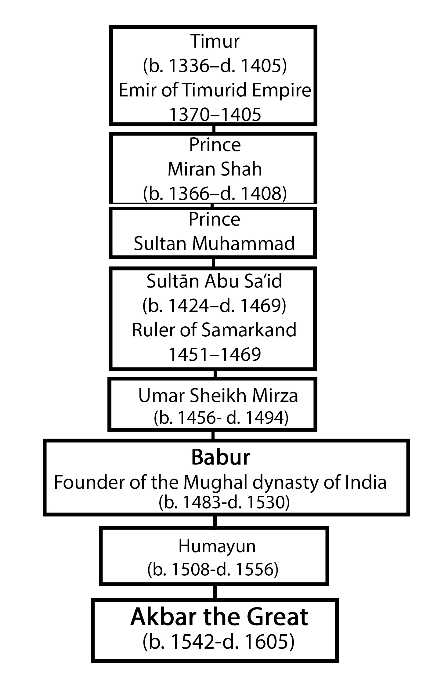 Akbar's Genealogical Order up to Timur